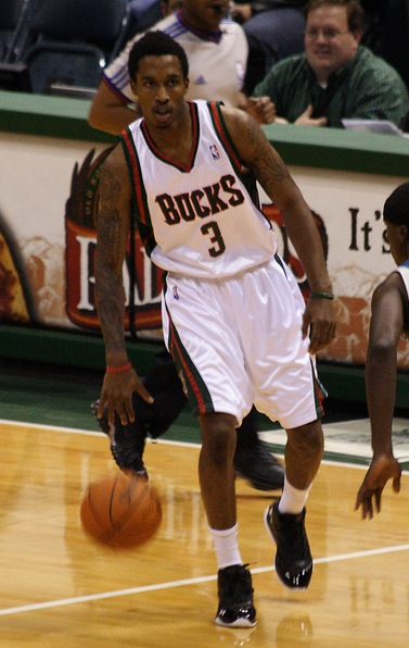 At the Bradley Center during a preseason game against Minnesota.